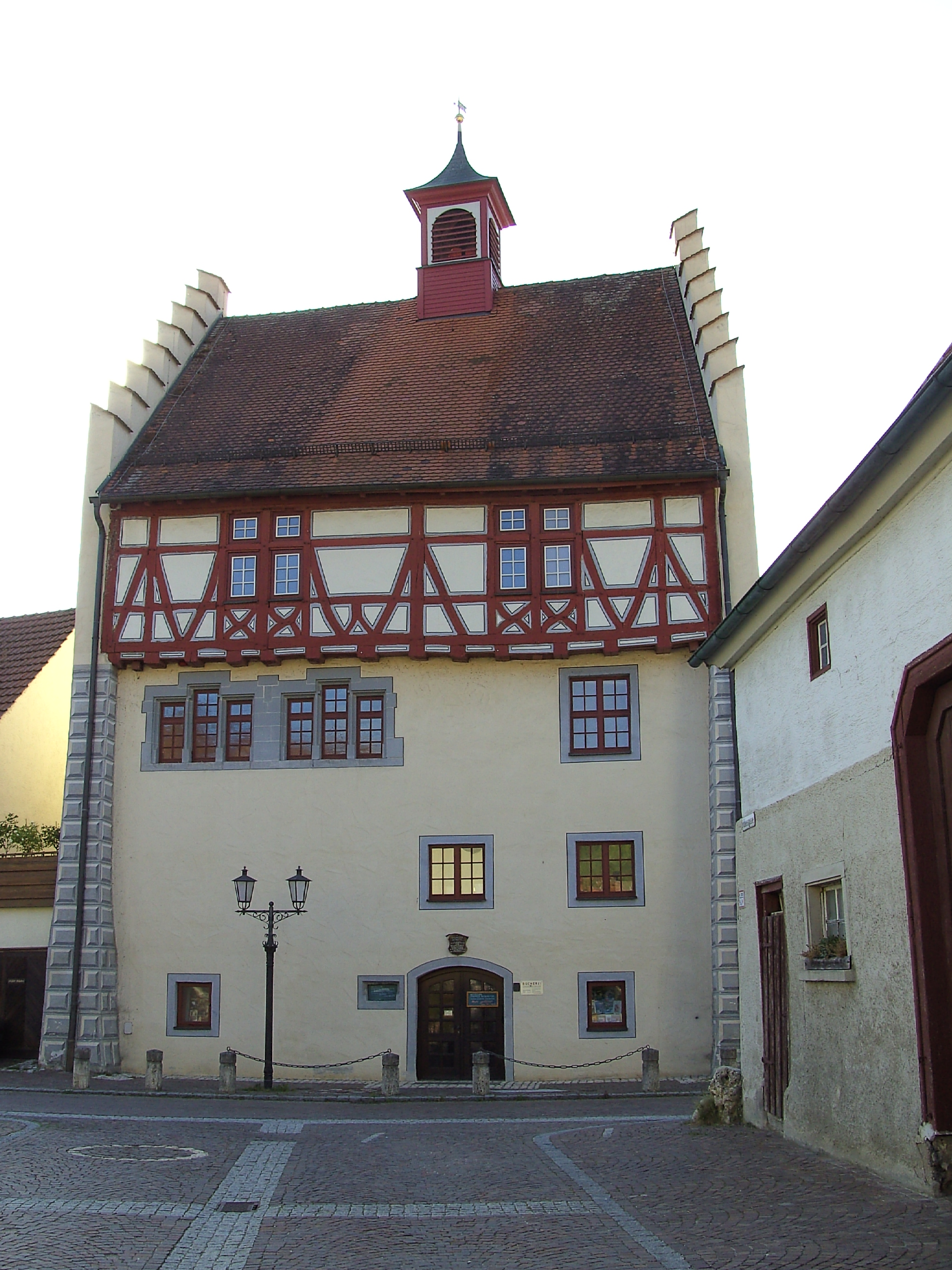 The castle in Fridingen (Ifflinger Castle) houses the museum.